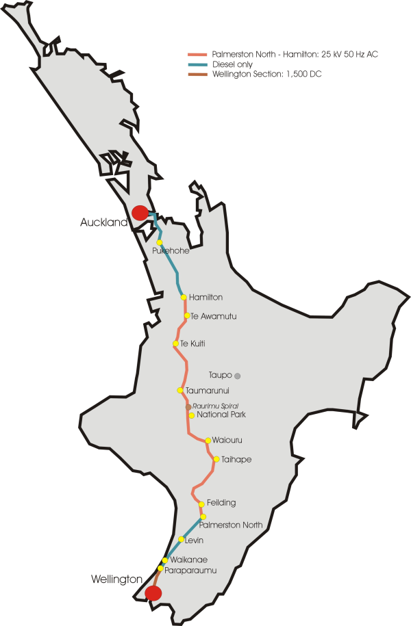 Map of North Island New Zealand, North Island Main Trunk Line